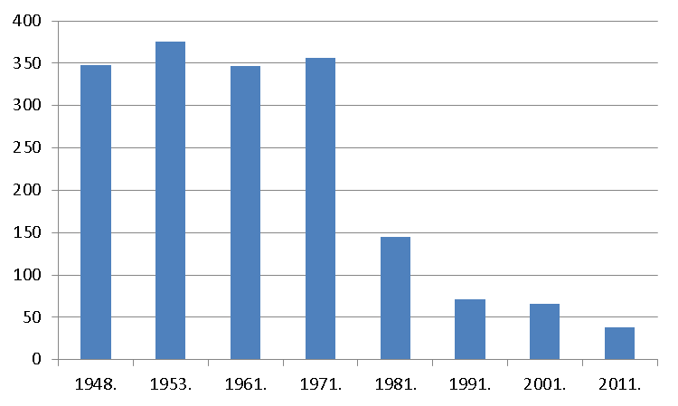 Statistics